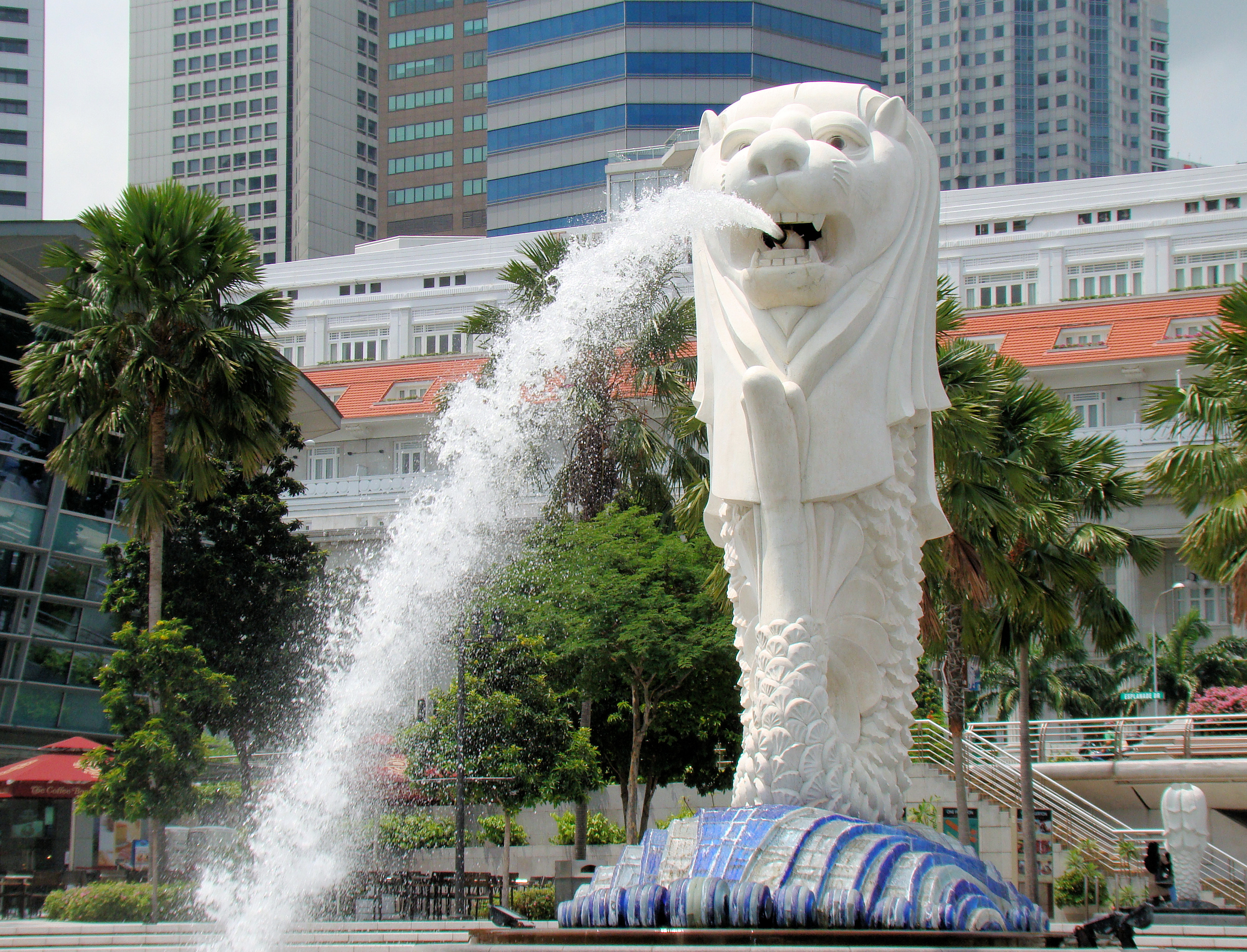 A statue in Merlion Park near the Central Business District in downtown Singapore. The merlion is a fictional creature that is half lion and half mermaid (the fishy part, obviously). The big merlion has a small "cub" that can be seen in the background to the right of the big statue in this photo.